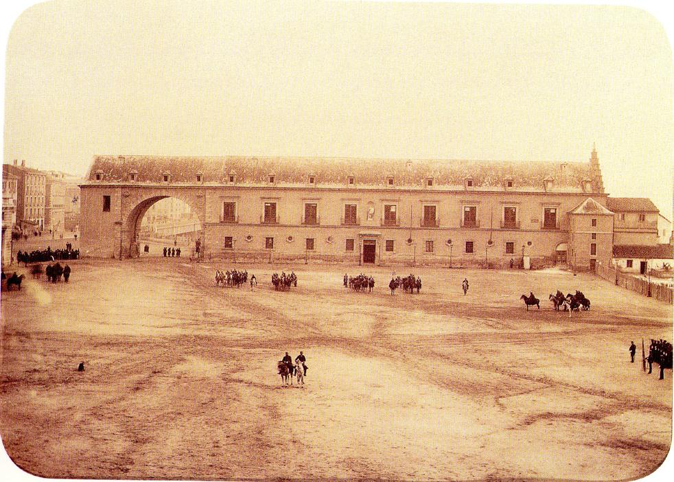 View of the former building of the Royal Armoury of Madrid (c. 1884).